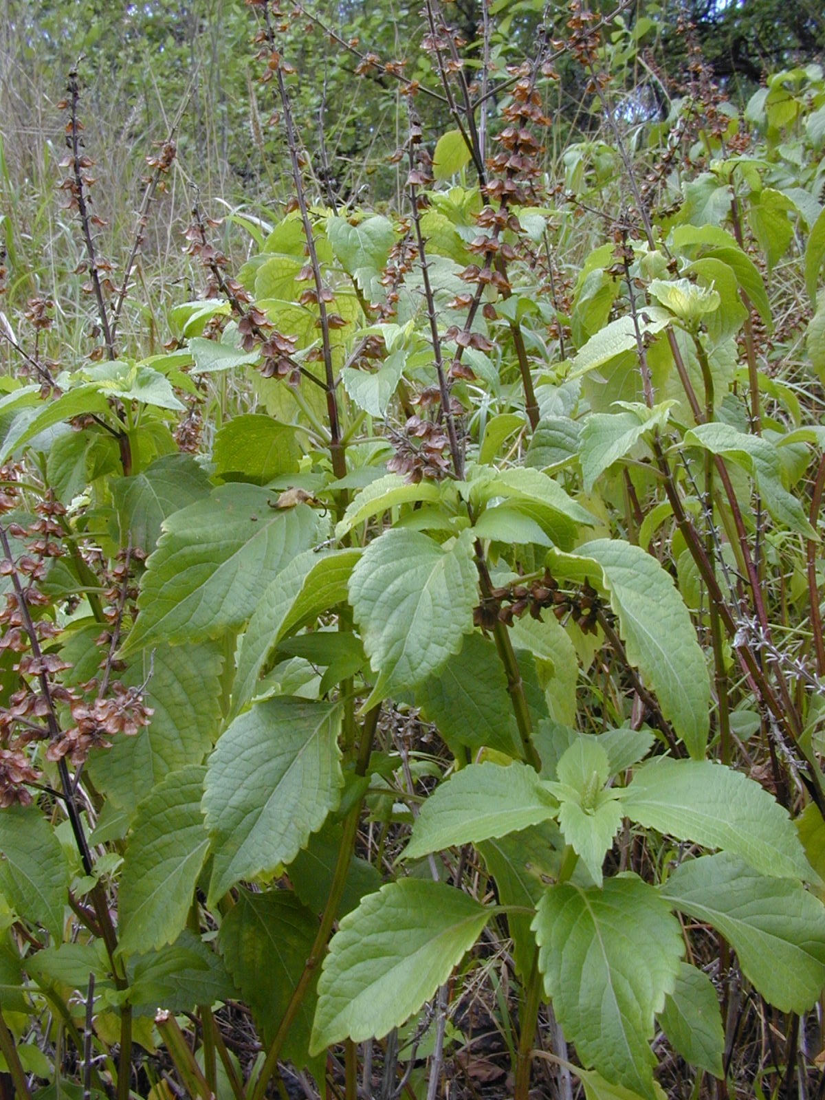 Ocimum gratissimum (leaves and fruit). Location: Maui, Wailea 670